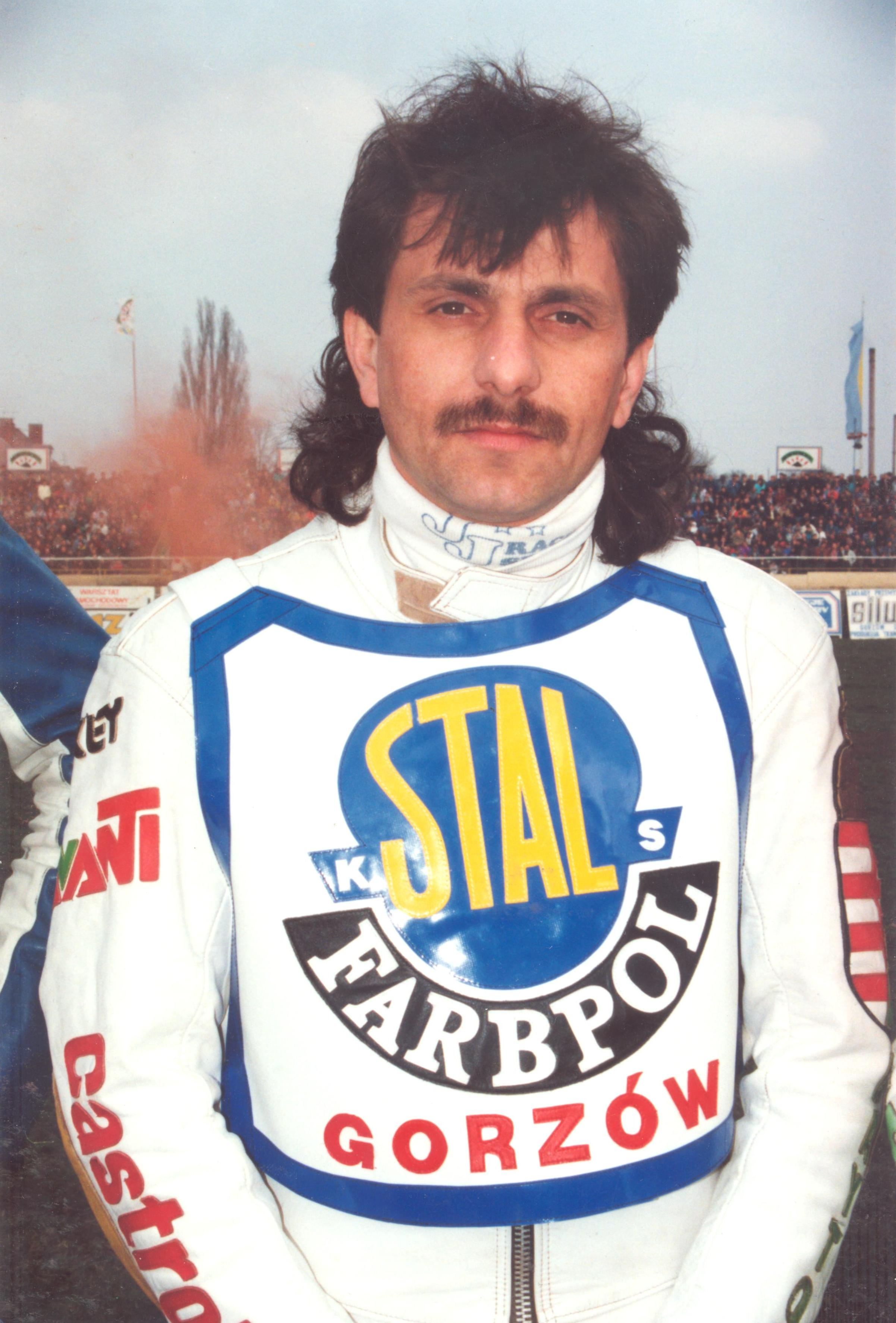 Antal Kocso - hungarian speedway rider.